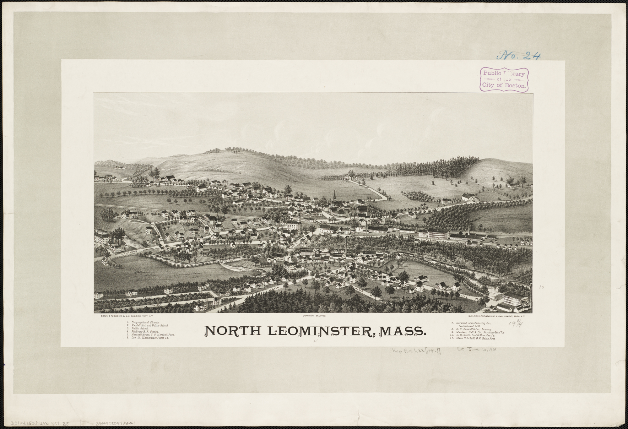 Zoom into this map at . Author: Burleigh, L. R. Publisher: L.R. Burleigh Date: [1887] Location: Leominster (Mass.) Scale: Not drawn to scale. Call Number: G3764.L5:2N6A3 1887.B8